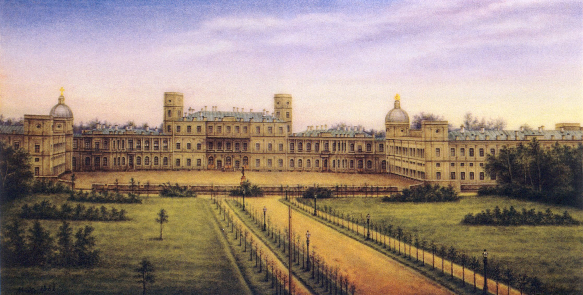 The Gatchina Palace. Painted porcelain